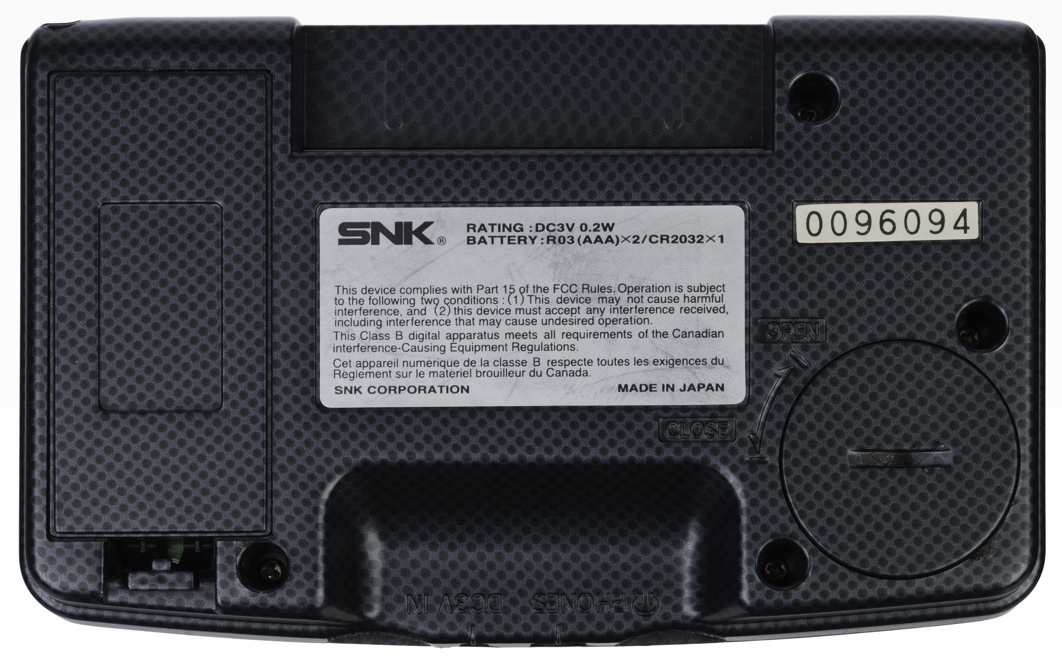 The back of a Neo Geo Pocket, a handheld gaming system by SNK, shown with the battery covers still in place.